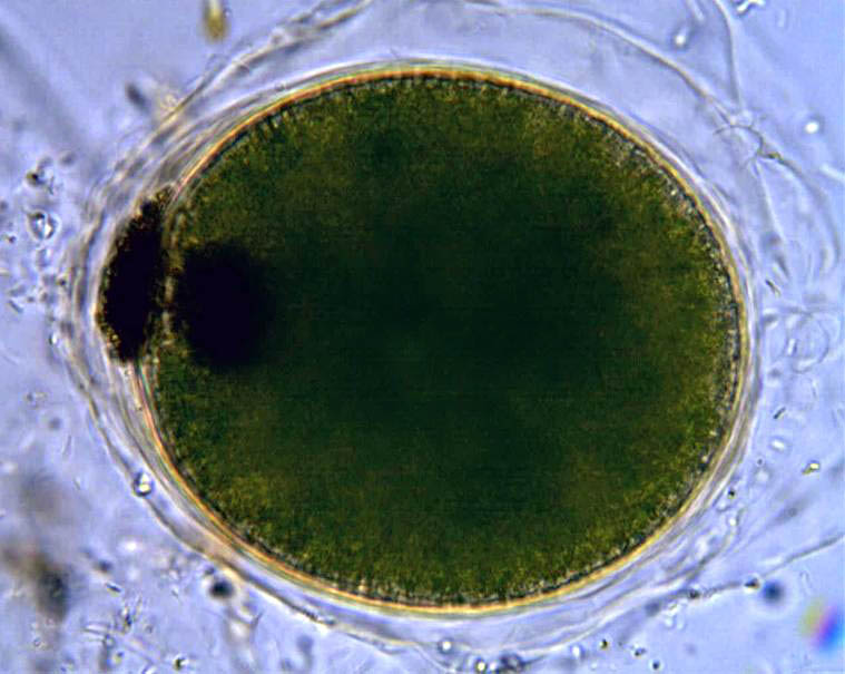 Resting Cyst of Dileptus viridis